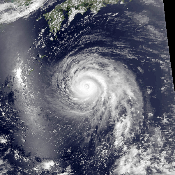 Typhoon Eve on July 16, 1996. At the time Eve had winds of 101.5 knts (116.8 mph, 188 kph), 1-min sustained and a pressure of 940 mbar. Eve was about 220 miles away from land. This image was taken by the NOAA-14 Satellite.